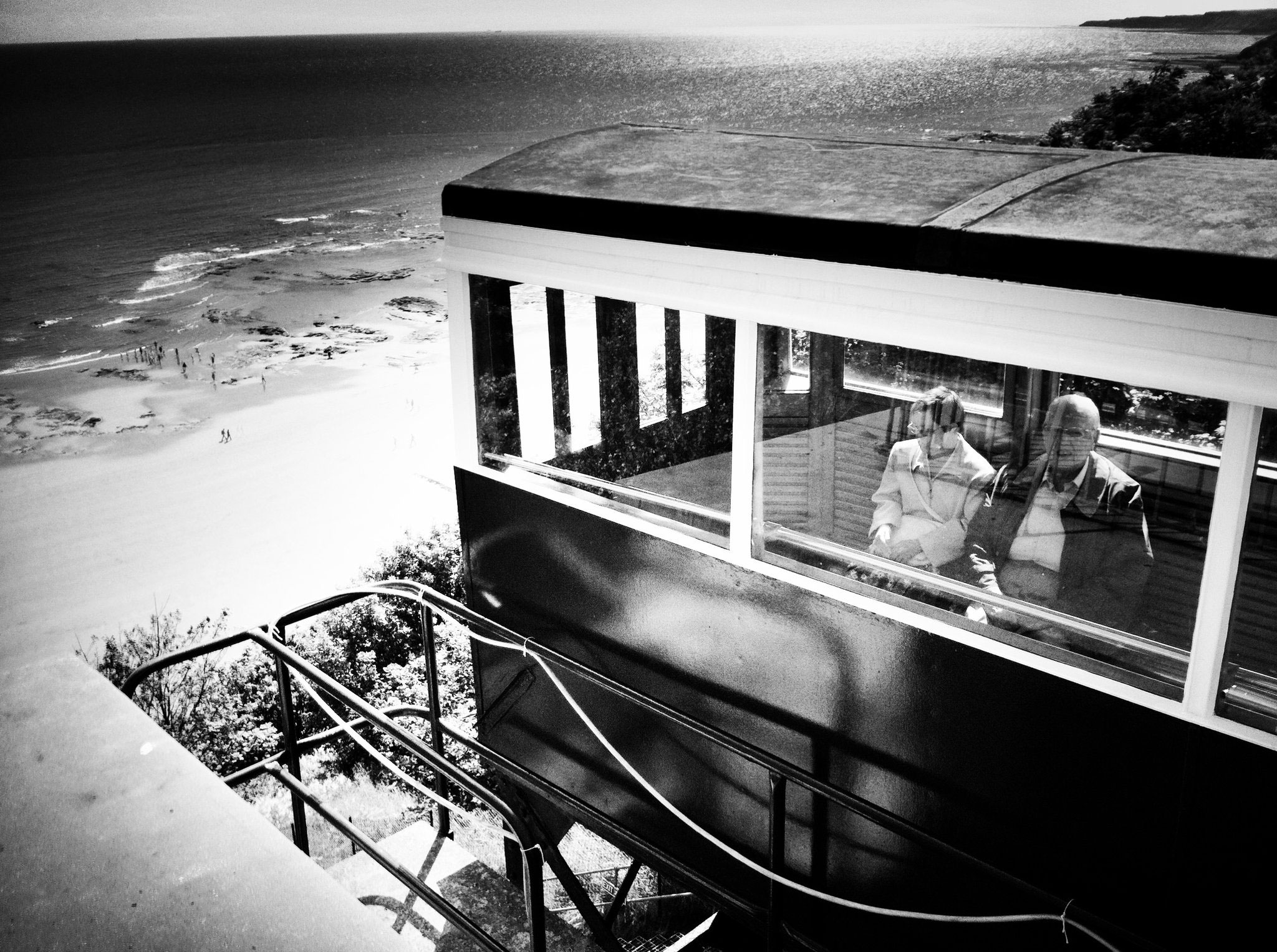 Victorian funicular of South Cliff, Scarborough United Kingdom